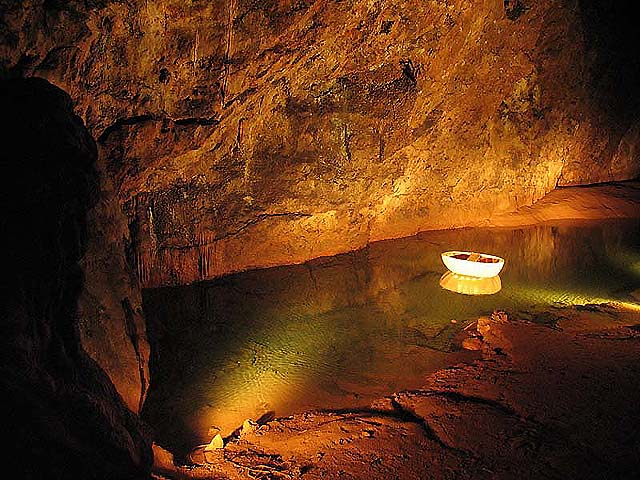 Subterranean Lake at Wookey Hole